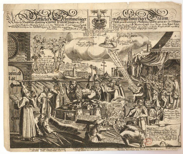 A broadside on the centenary of the German Reformation and a prophetic dream of Friedrich III of Saxony on Luther's posting of the 95 Theses in Wittenberg; showing on the left Martin Luther writing with a large pen on a church door, the end of his pen poking through the ears of a lion, knocking off the tiara of Pope Leo X; with engraved German and Latin title and text above and below, and extensive lettering throughout the image with quotations from the Bible, and identifying key figures (missing the letterpress text in German and Latin, 1617).